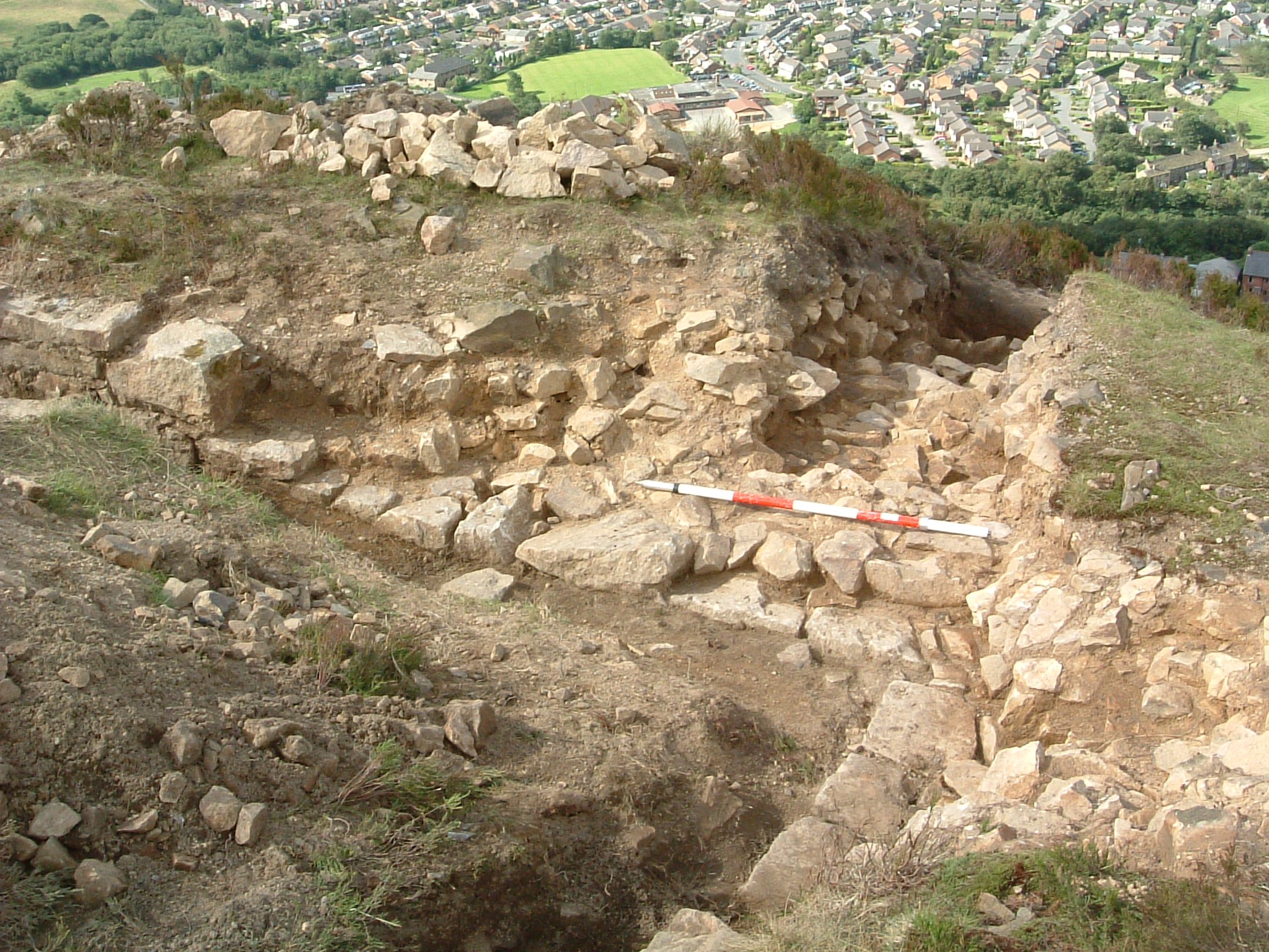 Excavation of the stone curtain wall belonging to Buckton Castle in July 2007.